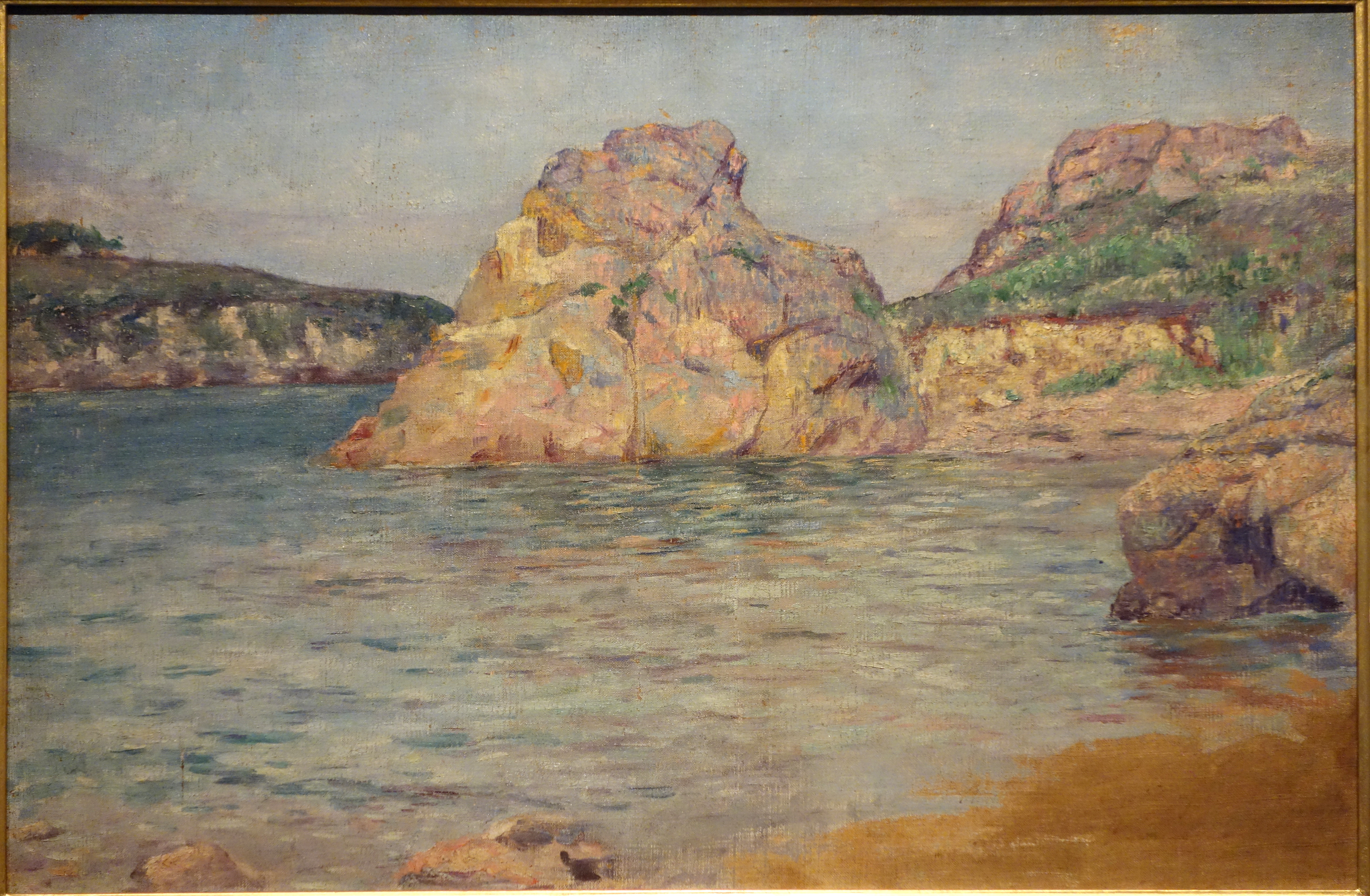 Exhibit in the National Museum of Modern Art, Tokyo (東京国立近代美術館). This artwork is in the public domain because the artist died more than 70 years ago.